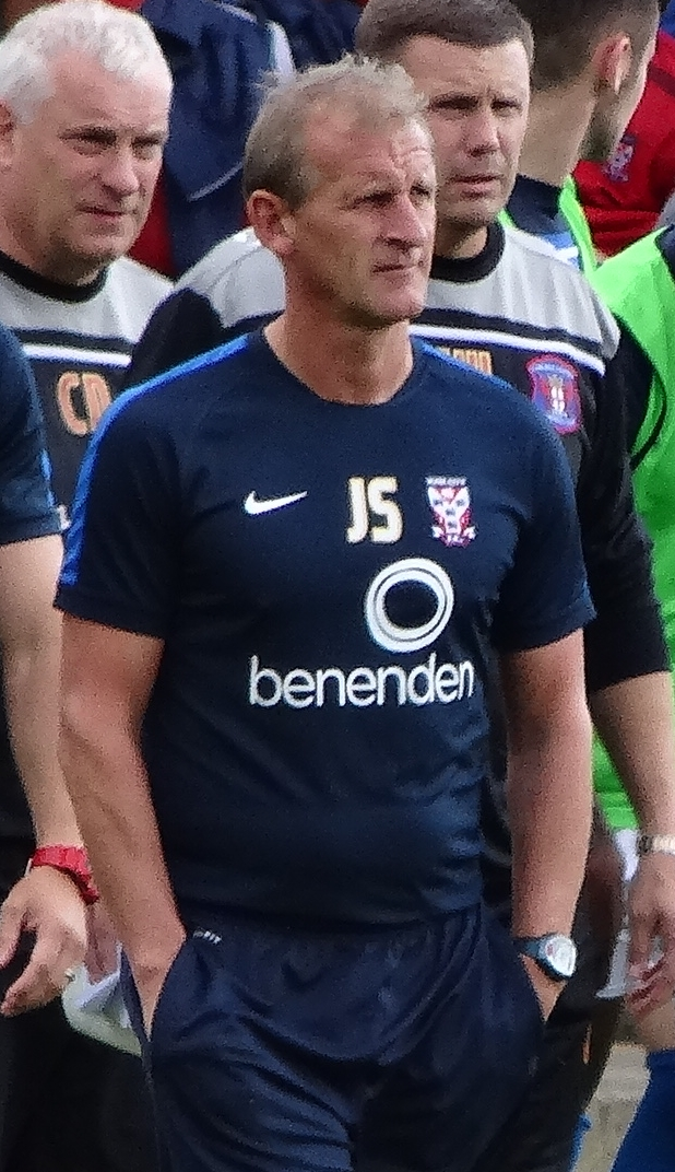 John Schofield before York City's match against Carlisle United at Bootham Crescent, York on 19 September 2015